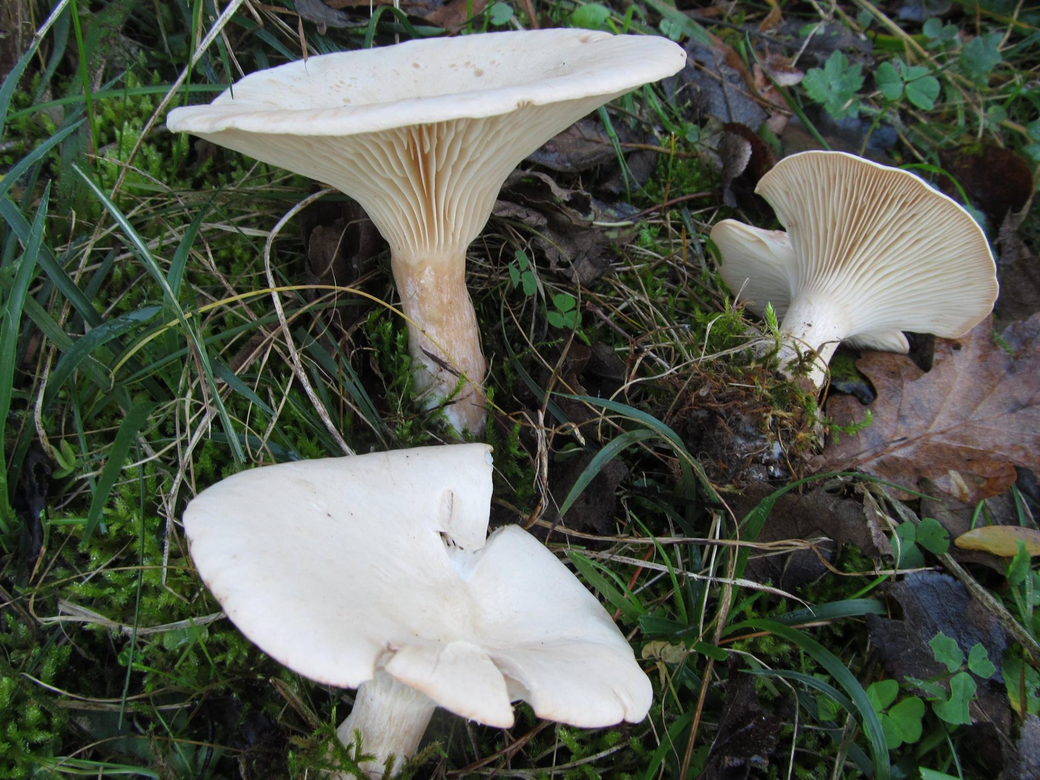 Basidiocarp of Infundibulicybe geotropa (Bull.) Harmaja